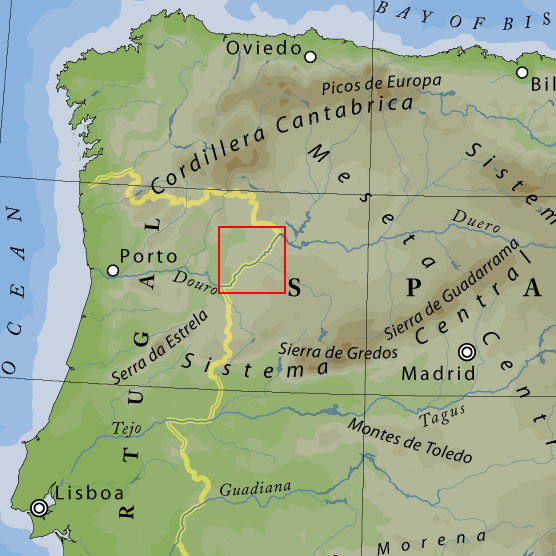 Duero/Douro border line betwen Spain and Portugal